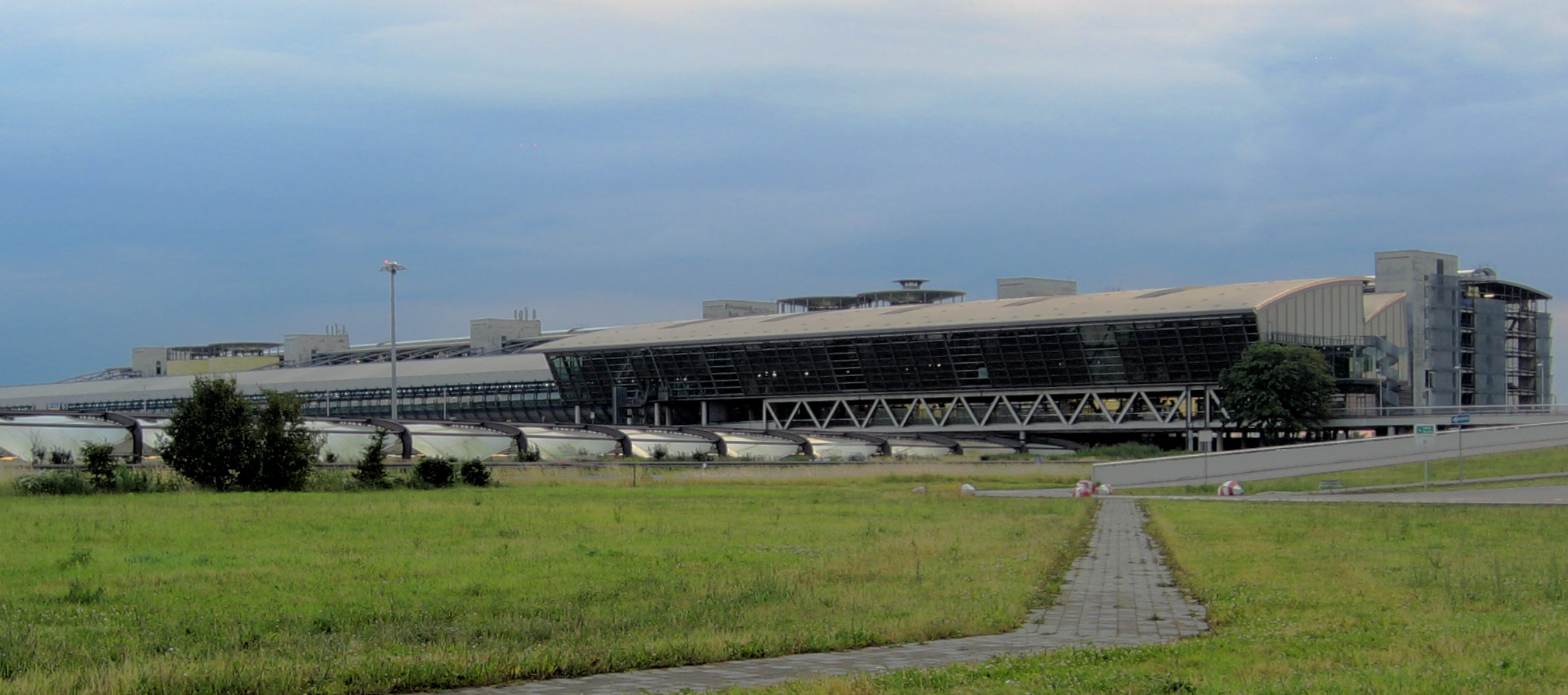 Check-in area (to the right) of the central terminal at the Leipzig/Halle Airport, opens in 2003, before it the airport railway station